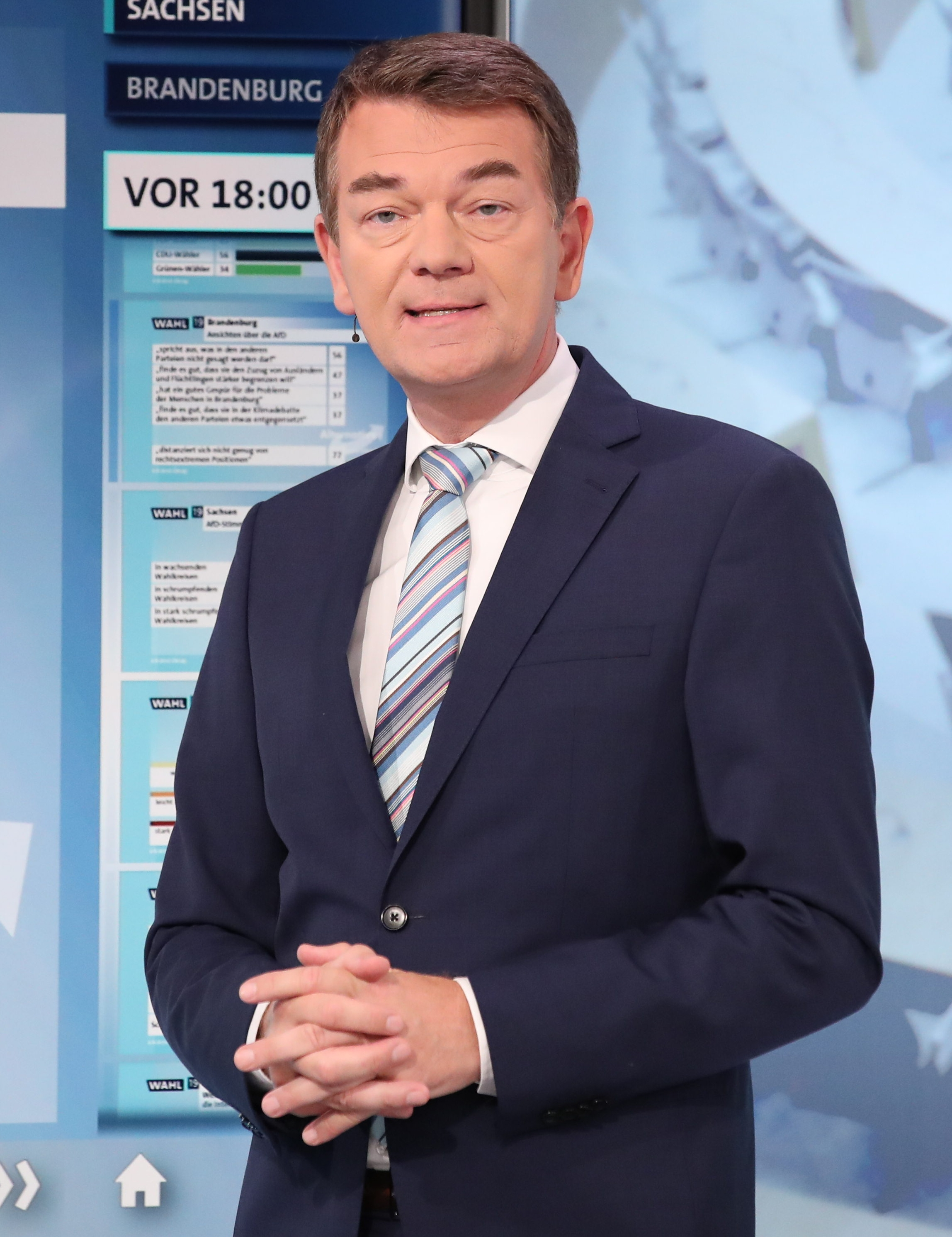 Election night Saxony 2019: Jörg Schönenborn (ARD)